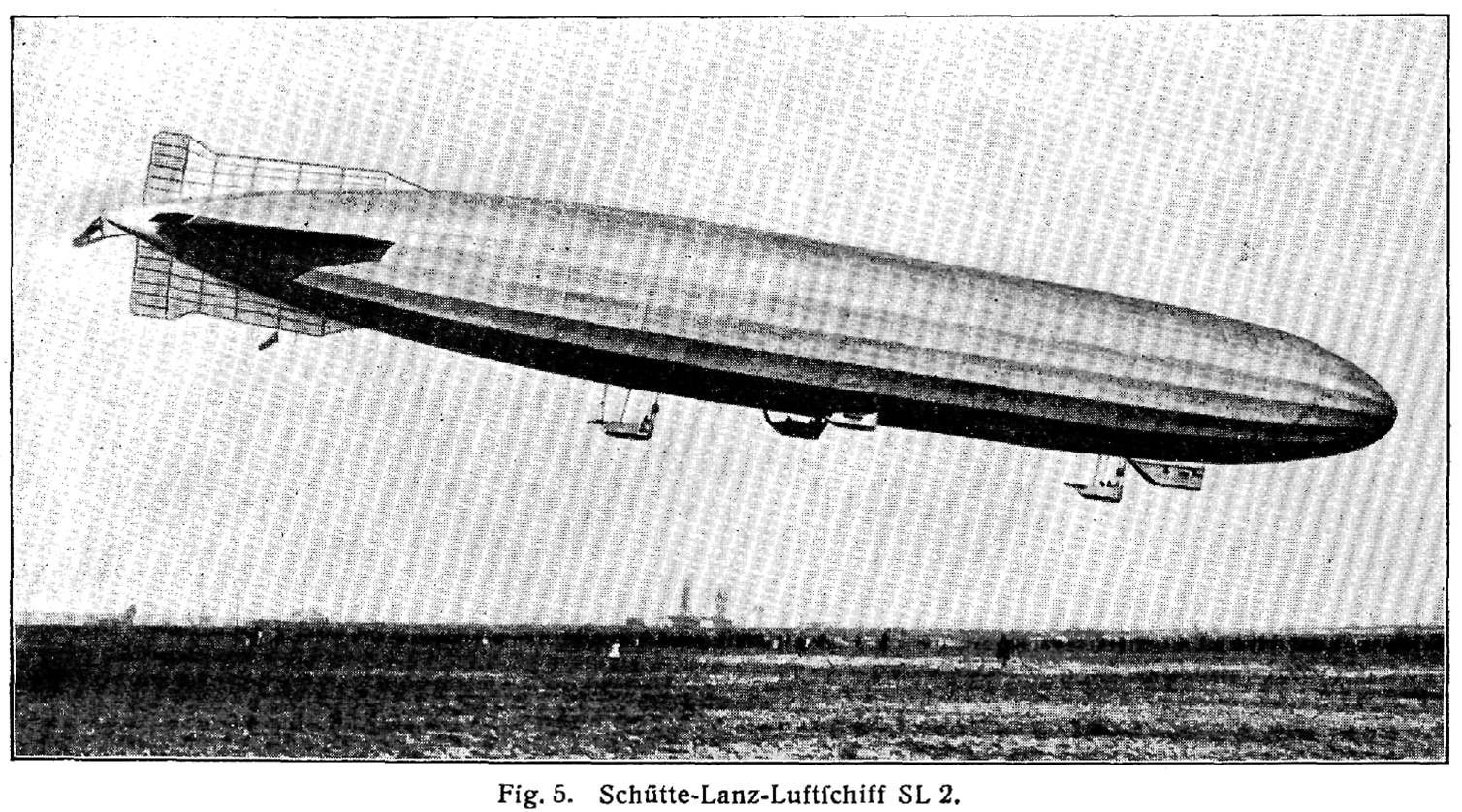 Fig. 5. Schütte-Lanz airship SL2.